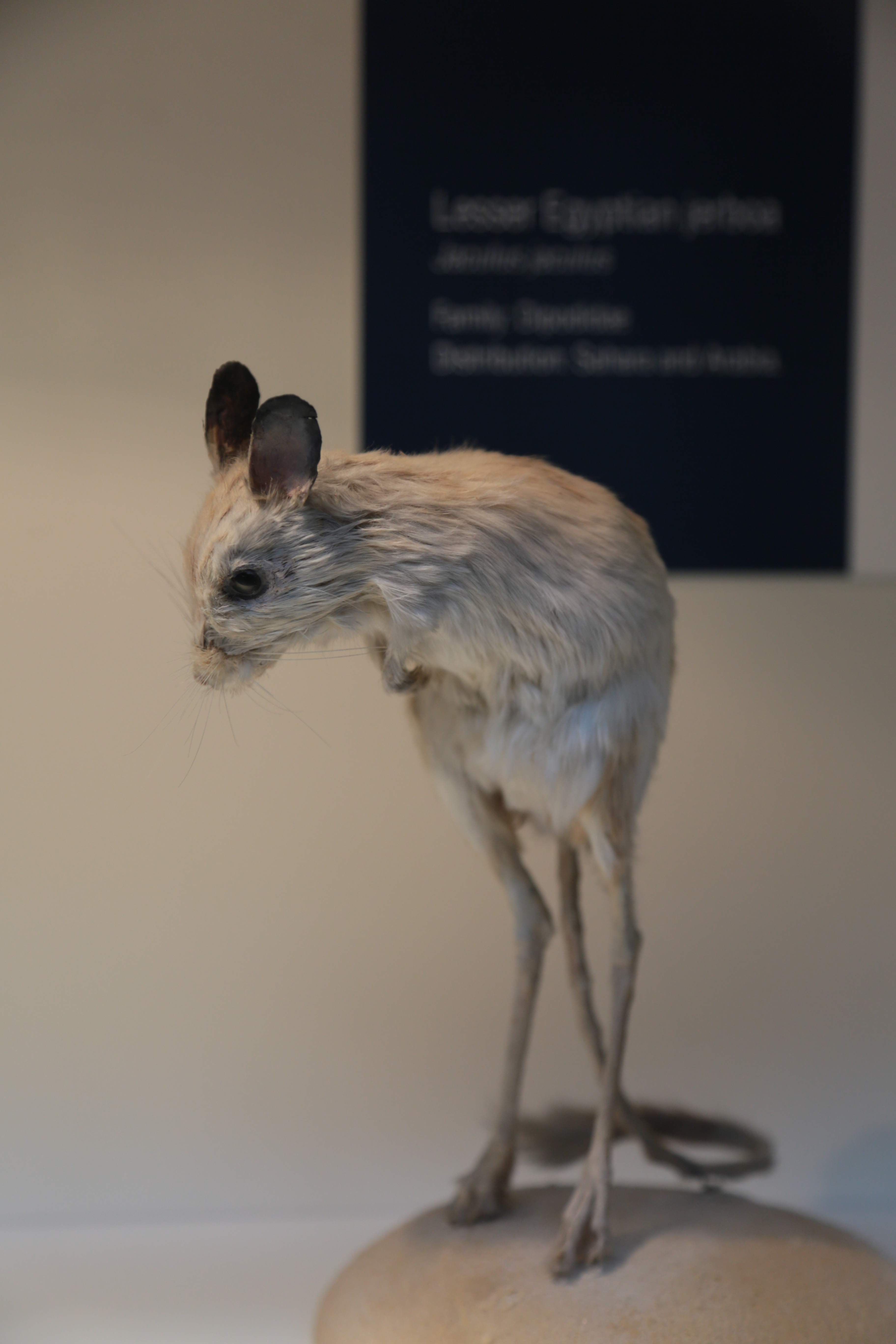 Lesser Egyptian jerboa (Jaculus jaculus), Natural History Museum, London, Mammals Gallery